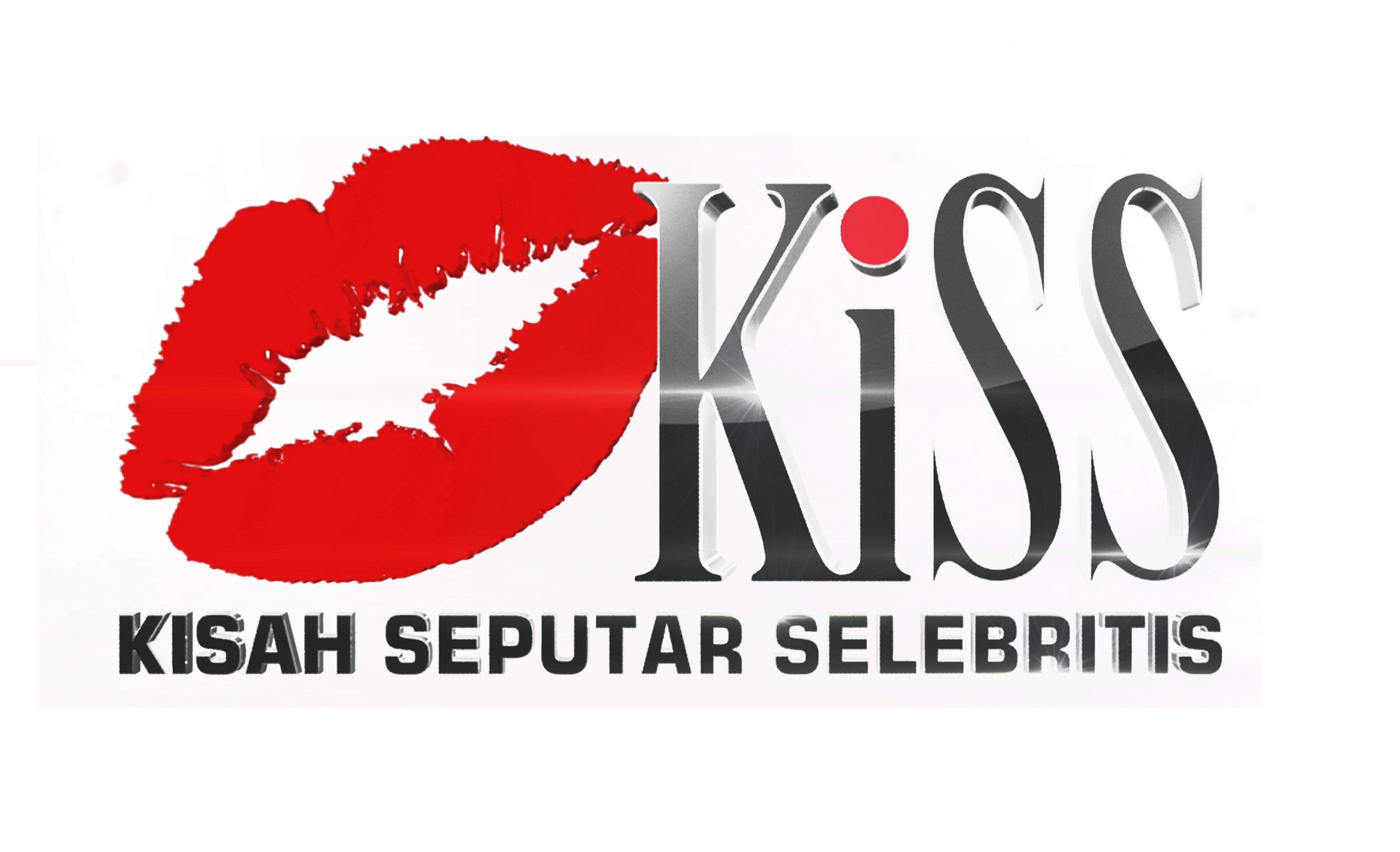 Kiss Pagi